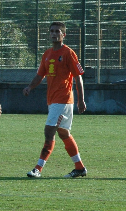 Cédric Cambon